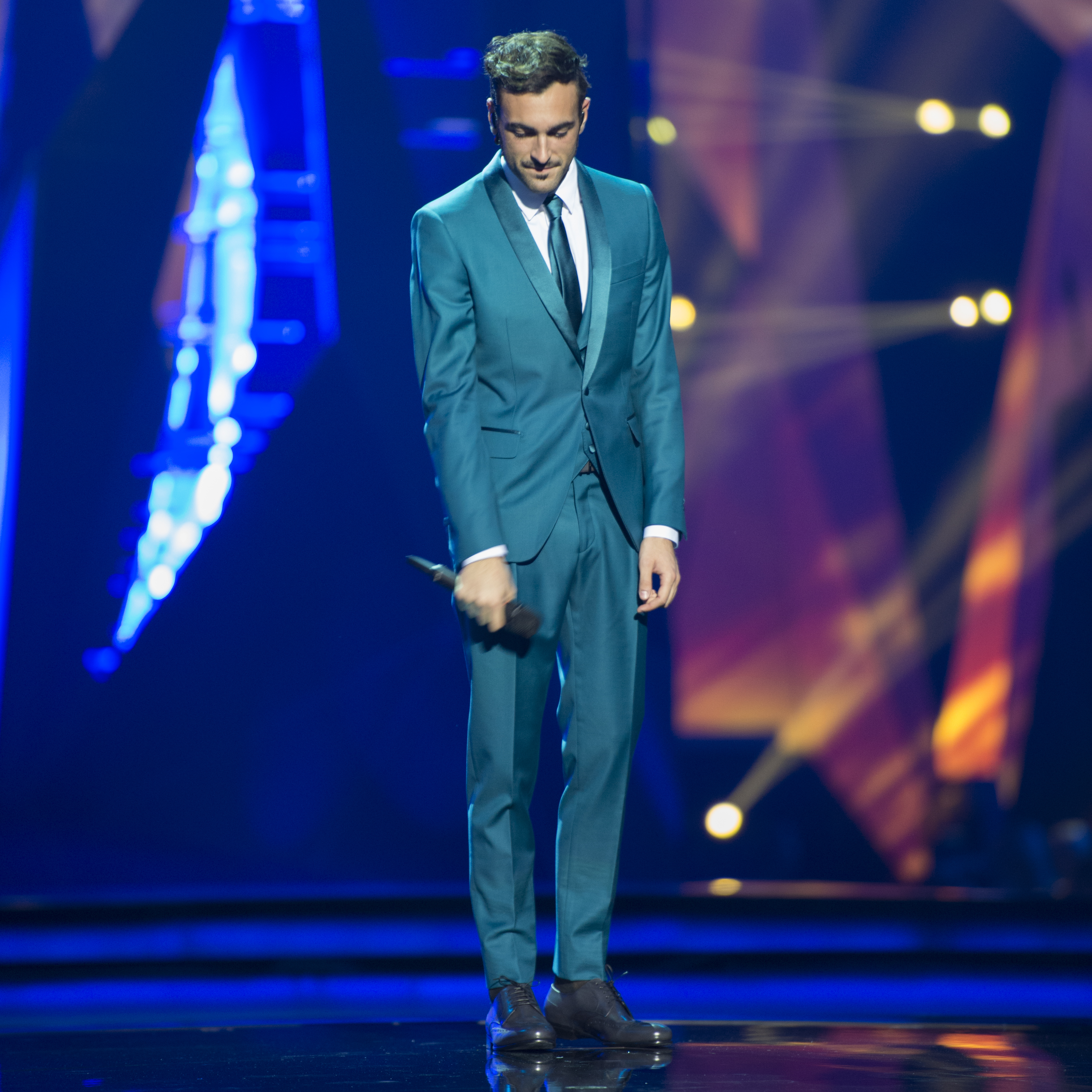 Marco Mengoni representing Italy with the song "L'essenziale" during the first dress rehearsal of the final of the Eurovision Song Contest 2013 in Malmö. (Help translate this text)